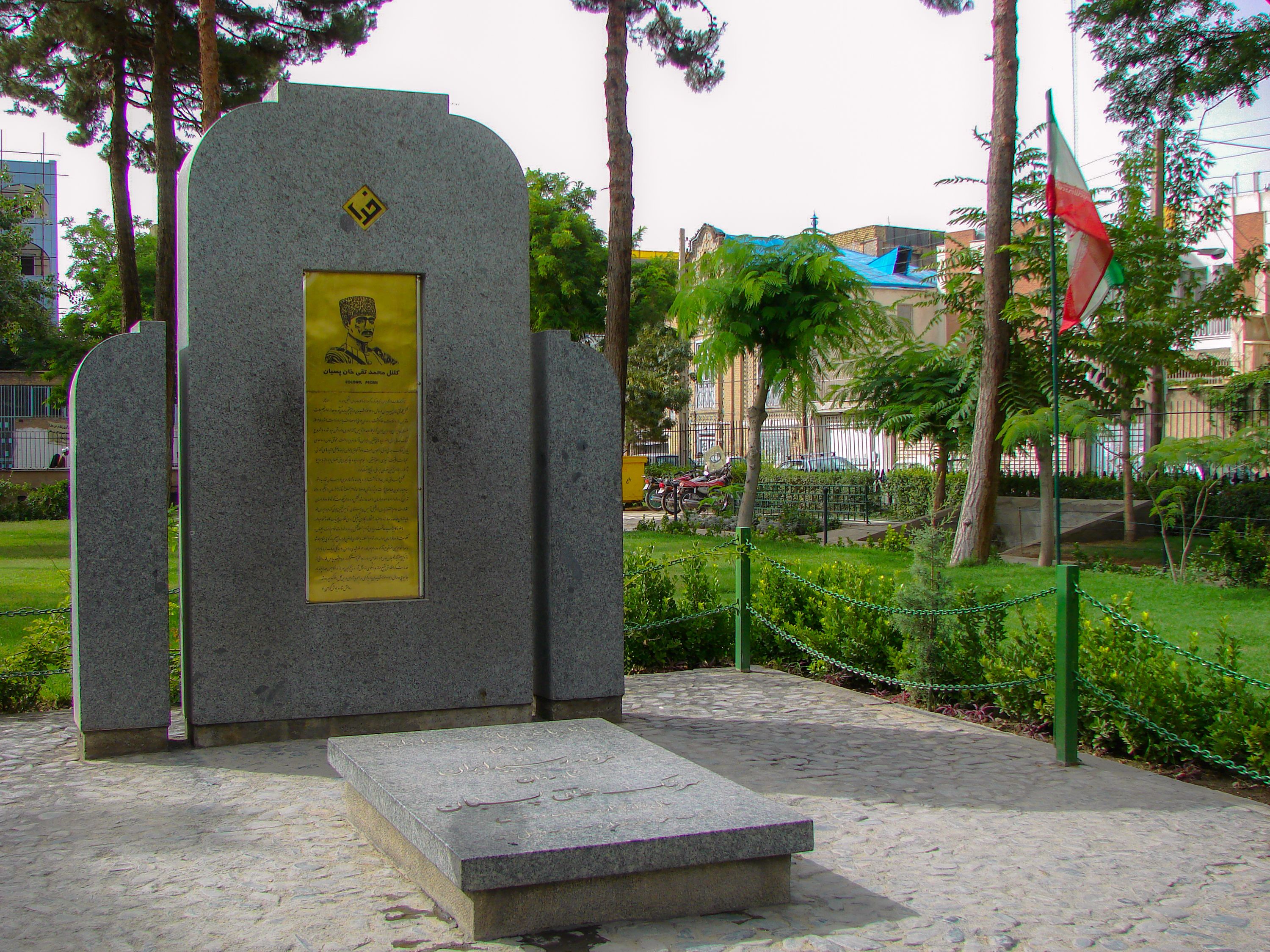 Tombs of Nader Shah